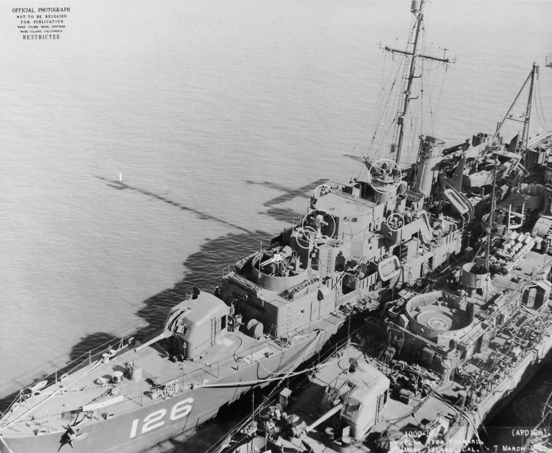 Forward plan view of the U.S. Navy high-speed transport USS Gosselin (APD-126) outboard of the destroyer escort USS Rudderow (DE-224) at the Mare Island Naval Shipyard, California (USA), on 7 March 1946.